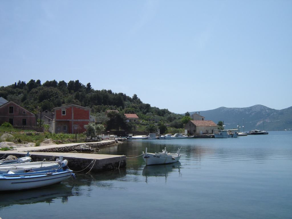 Lokvina bay on island Rava, Croatia.